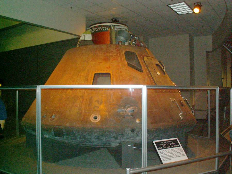 Apollo 15 Command Module capsule at the National Museum of the United States Air Force.